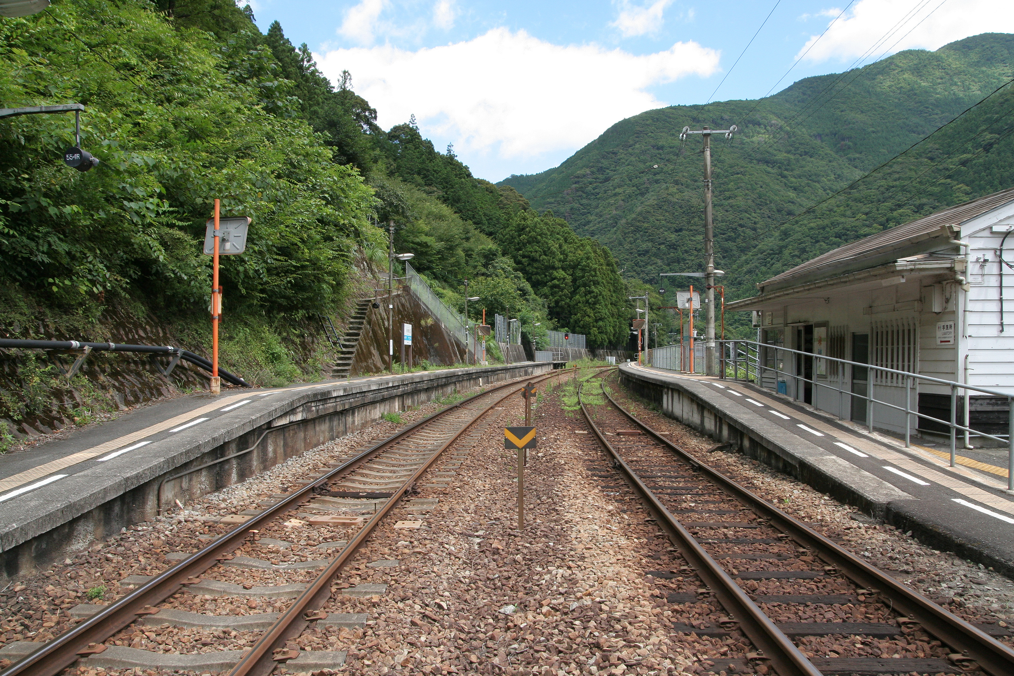 Shikoku Railway Dosan Line Koboke Station enclosure